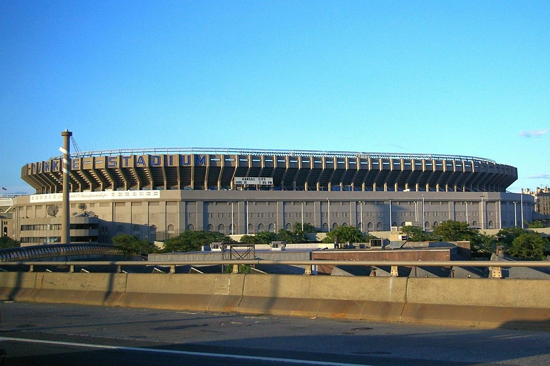 Stadium of the New York Yankees